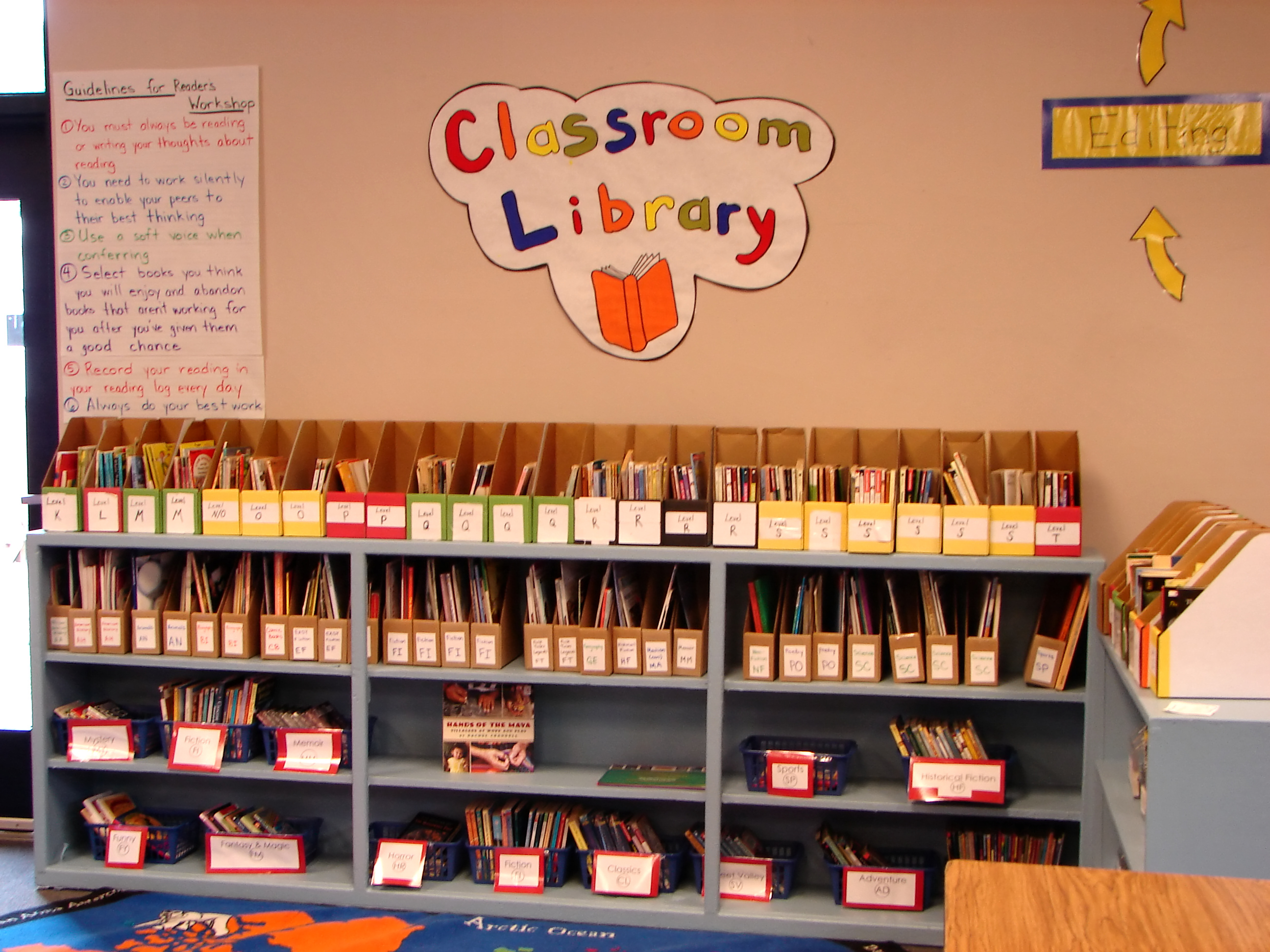 A typical classroom library (probably 3rd grade) at an American elementary schoollibrary